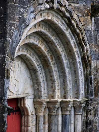 Hospital of O Incio Church